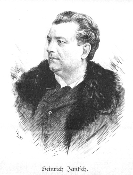 Portrait of Heinrich Jantsch (1845-1899), Austrian actor and theater director (intendant).